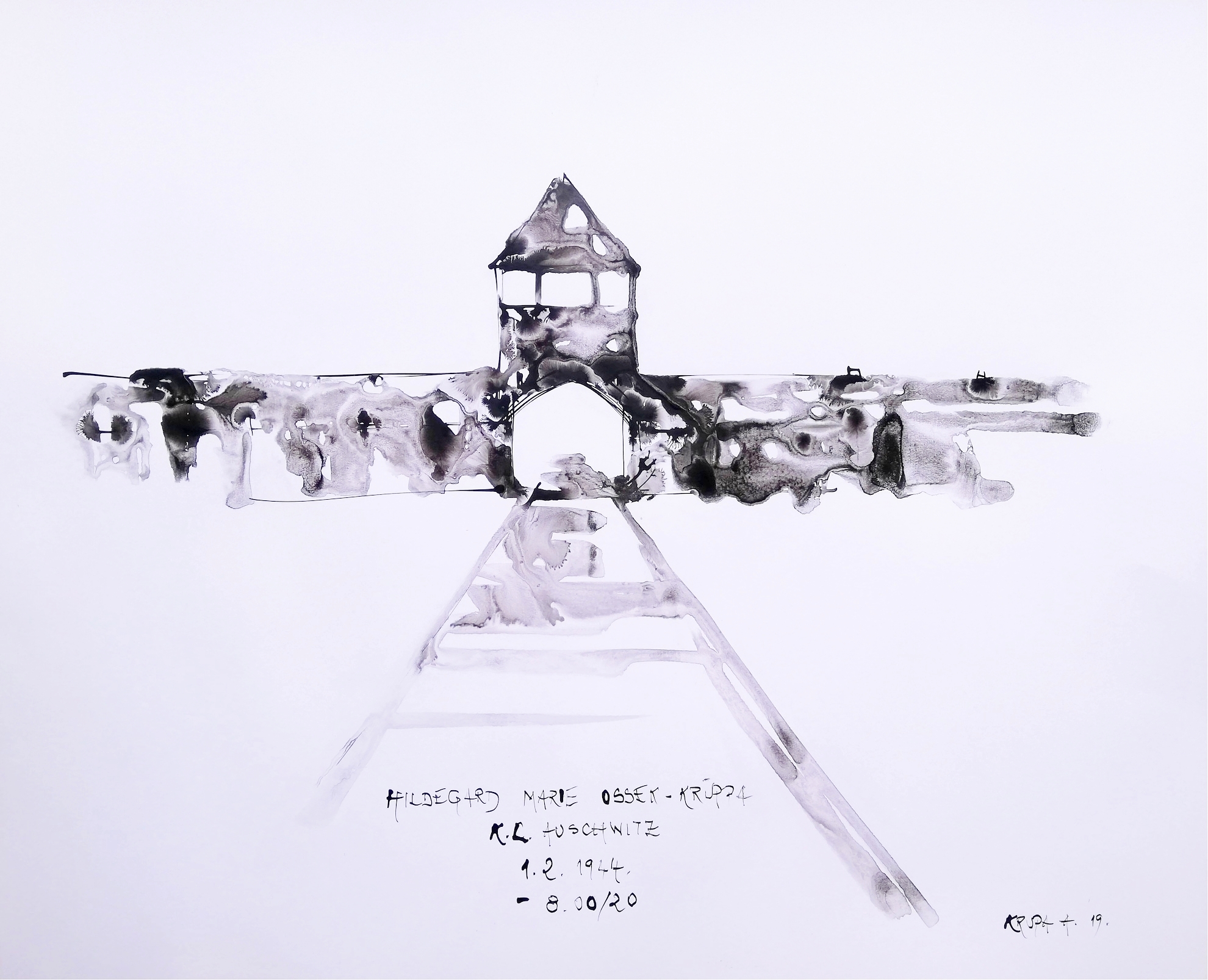 Style: Ink and wash painting, Neo-Expressionism Genre: history painting Media: ink, pen, brush Dimensions: 60 x 73 cm